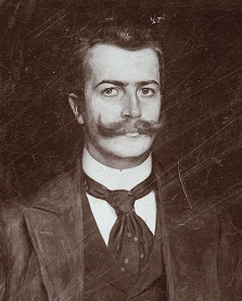 Feliks Tyszkiewicz 1869-1933